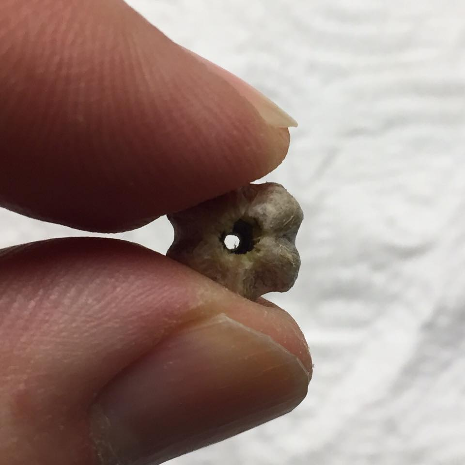 Melia seed hole